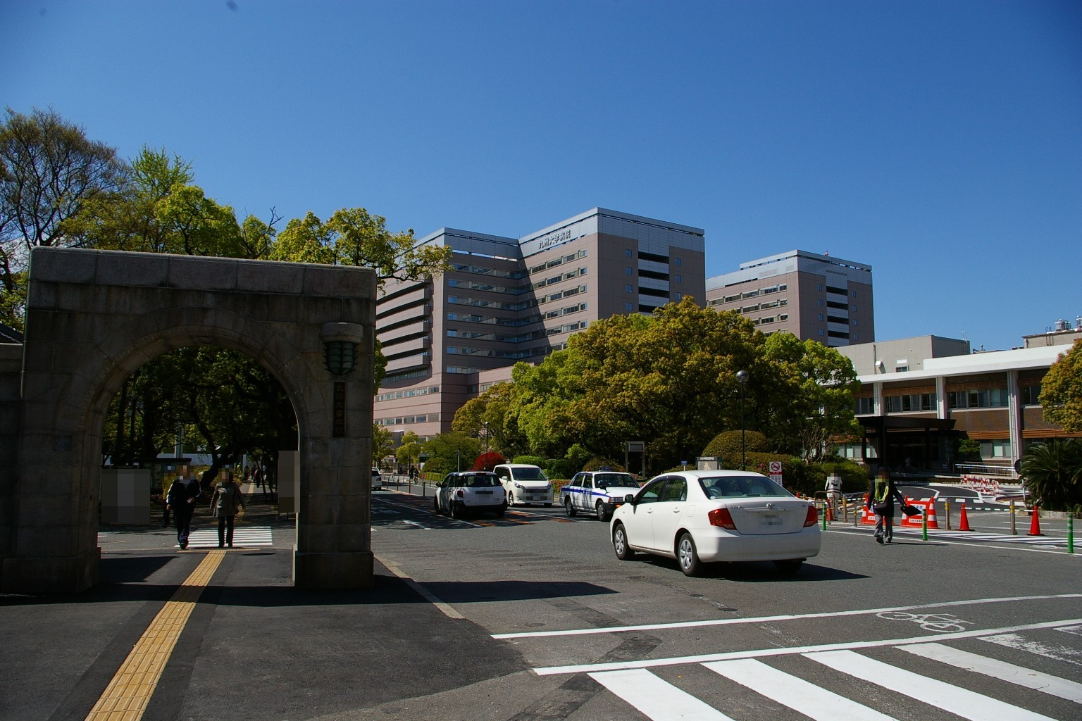 Kyushu University Hospital in Fukuoka City, Japan